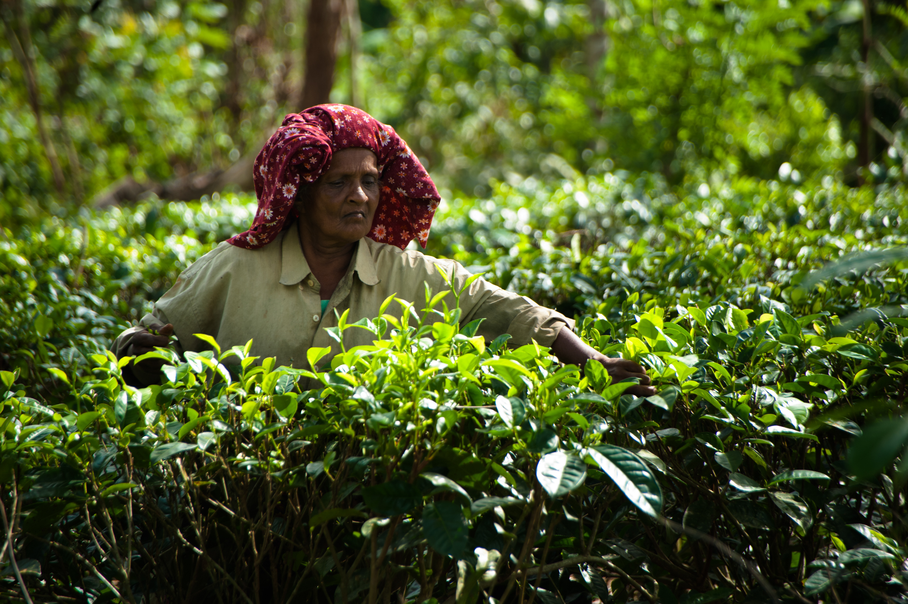 Tea crops gathering process. Bogawantalawa Valley. Sri Lanka.